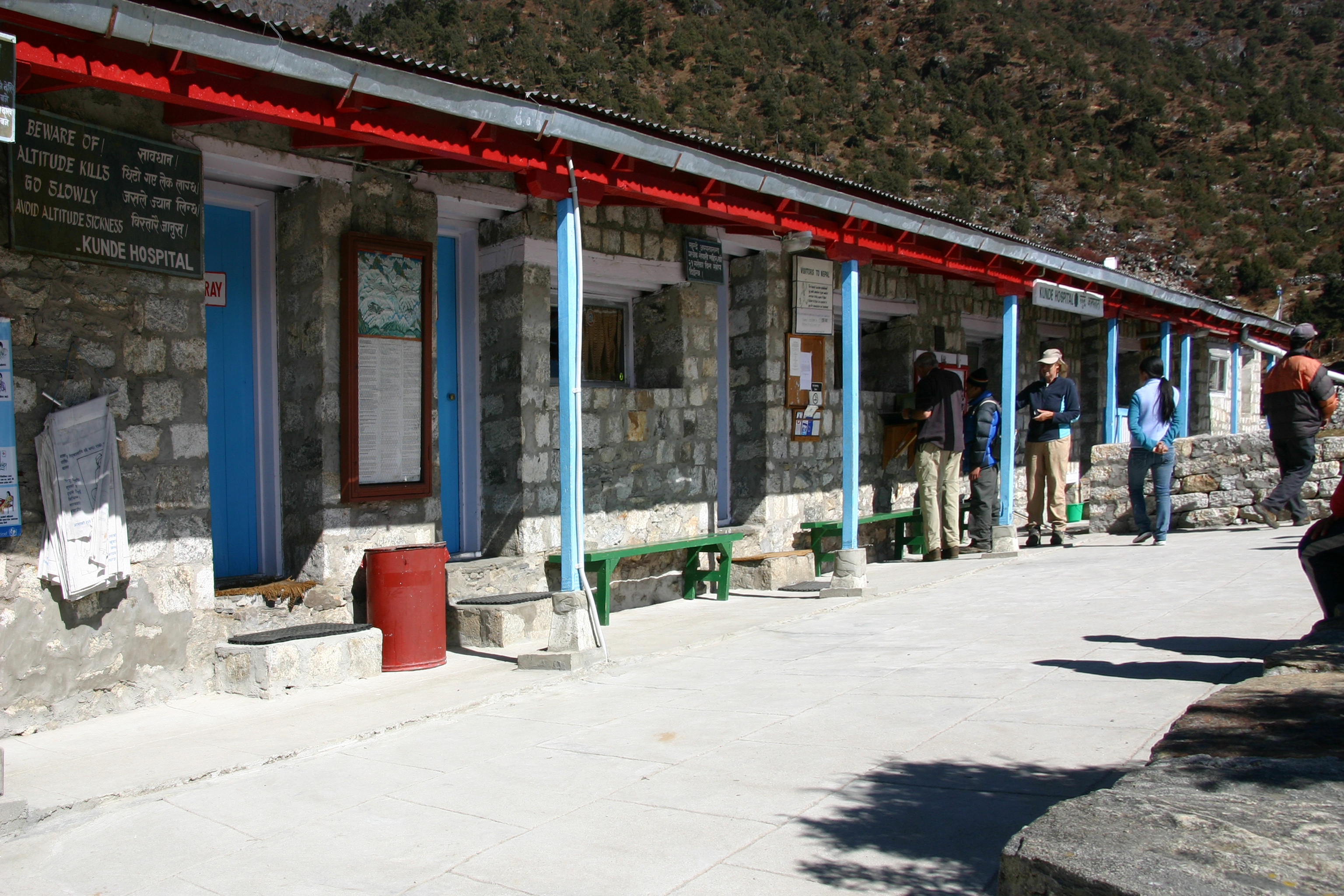 Khunde village in the VDC Khumjung in Solukhumbu District in Nepal